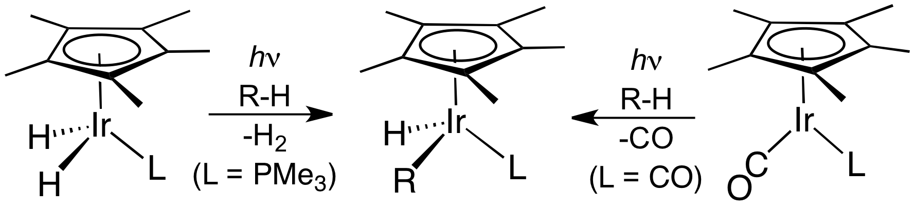 improved, C-HWAG&RGB.png is bad